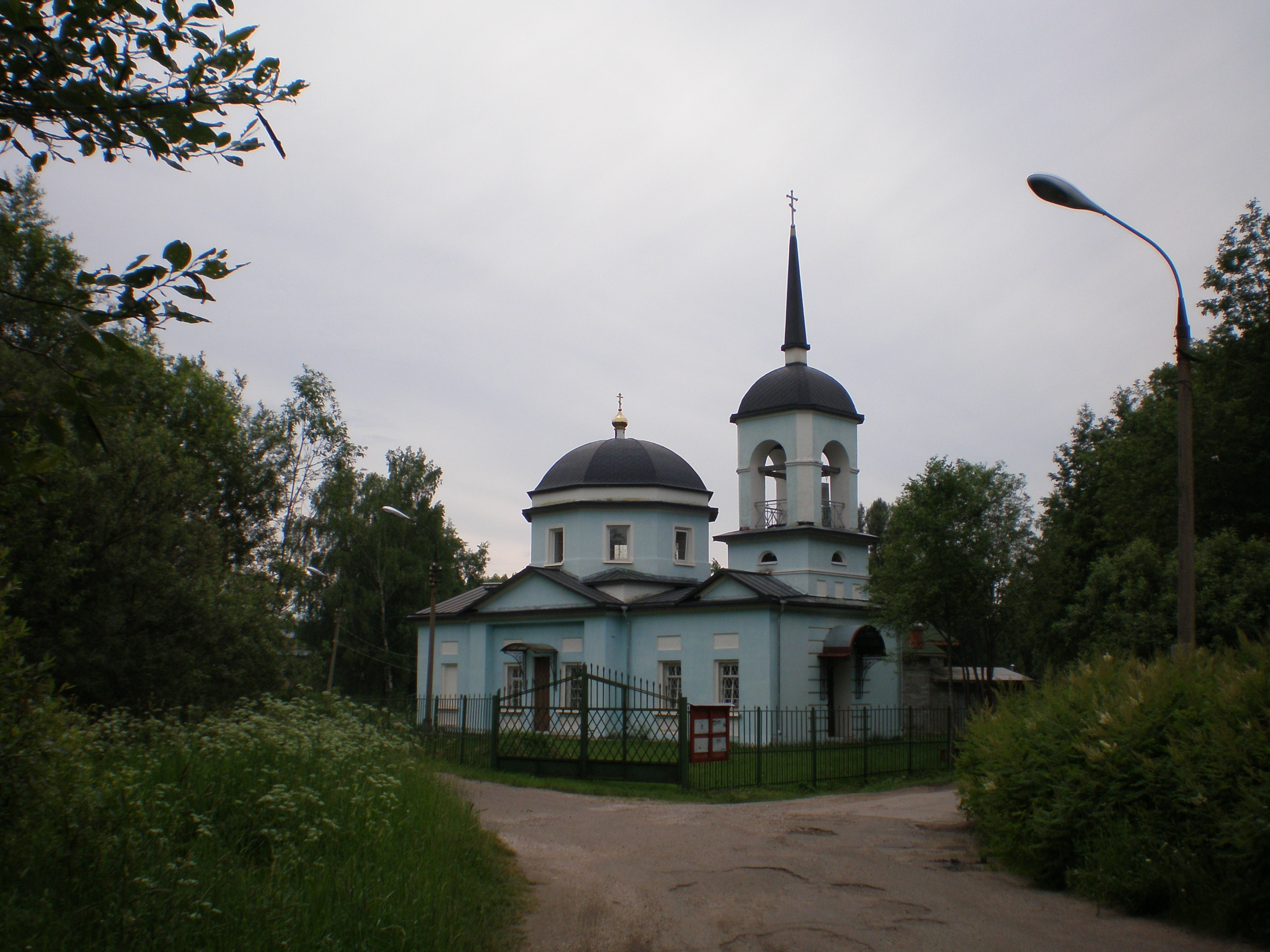 Church Intercession of Our Lady. Village Nadezhdino, Dmitrovsky district, Moscow region.